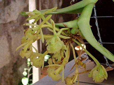 A work released per the GNU Free Documentation License by: Martín Javier Battiti de Tegucigalpa, Honduras